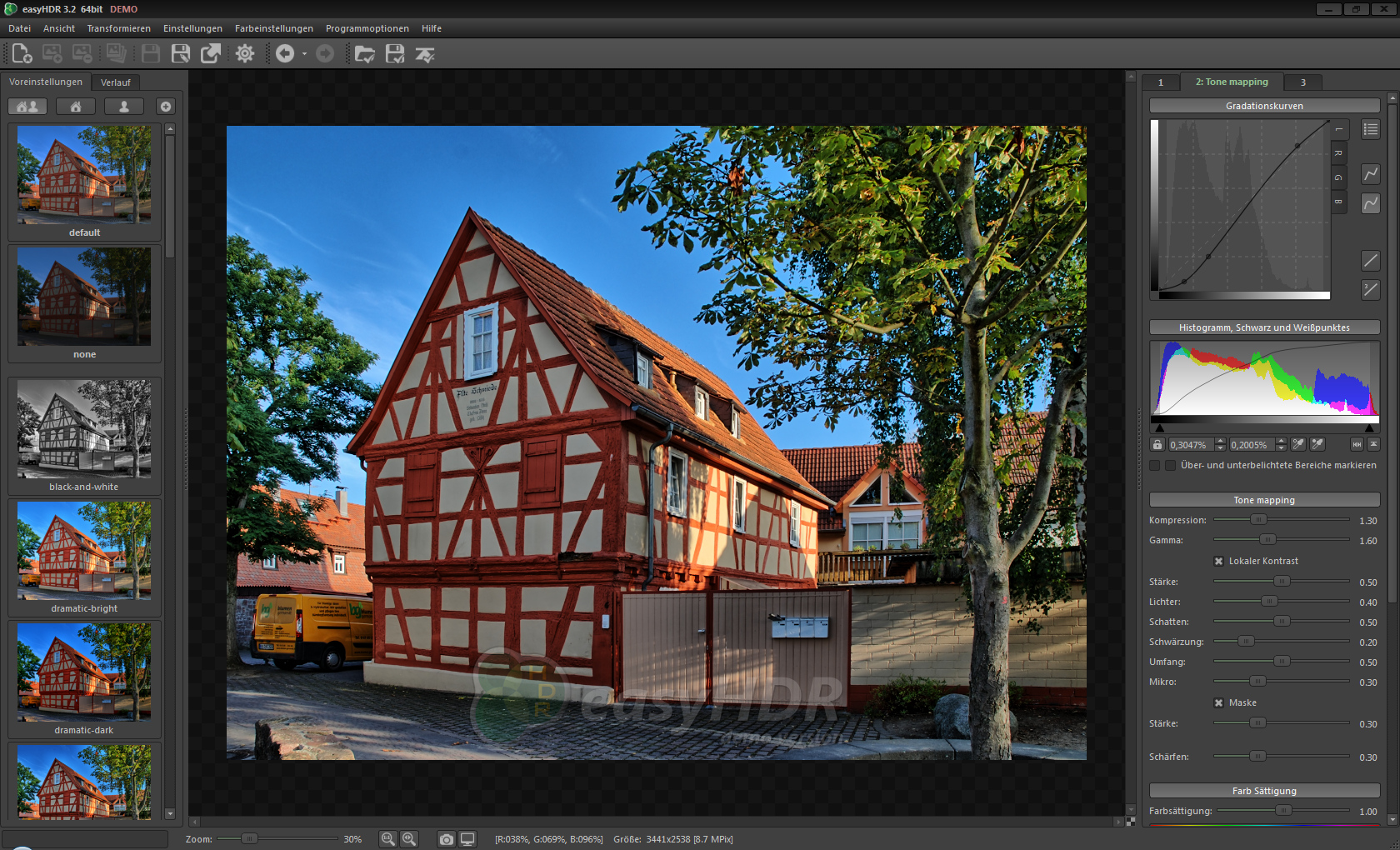 Screenshot of the graphic user interface of software easyHDR